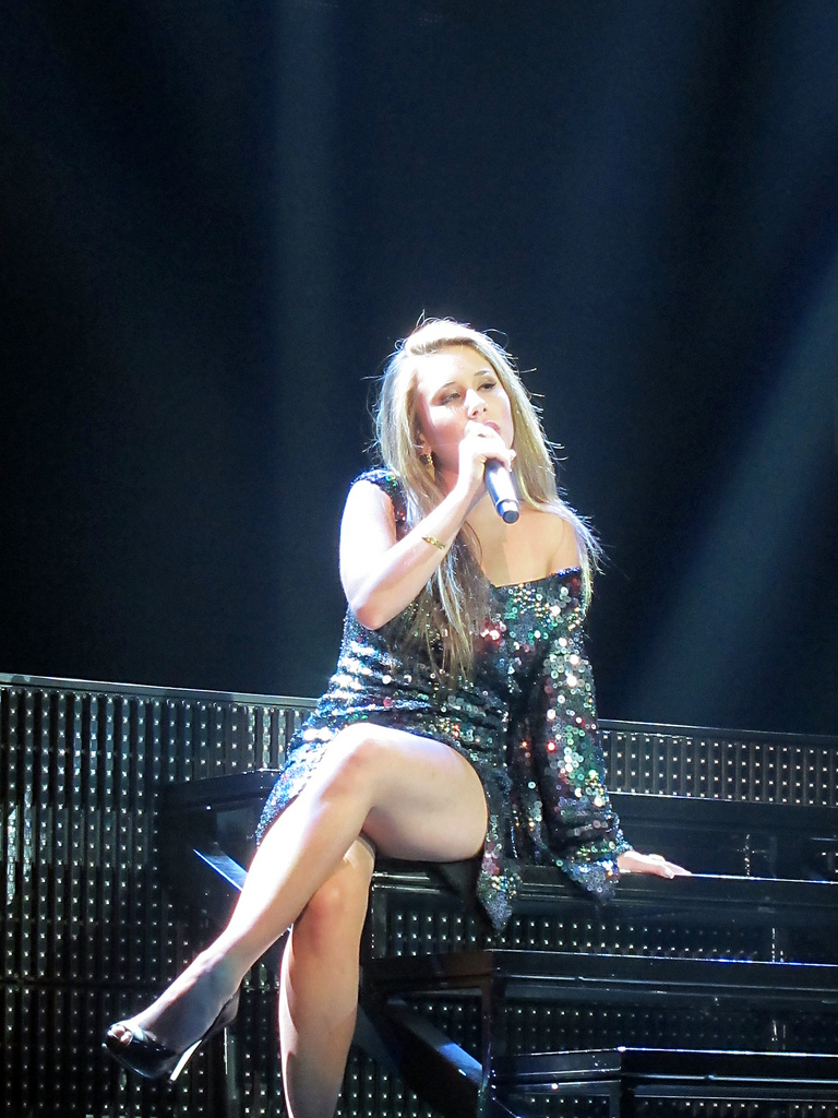 Haley Reinhart at the American Idols LIVE! 2011 Tour in July 2011